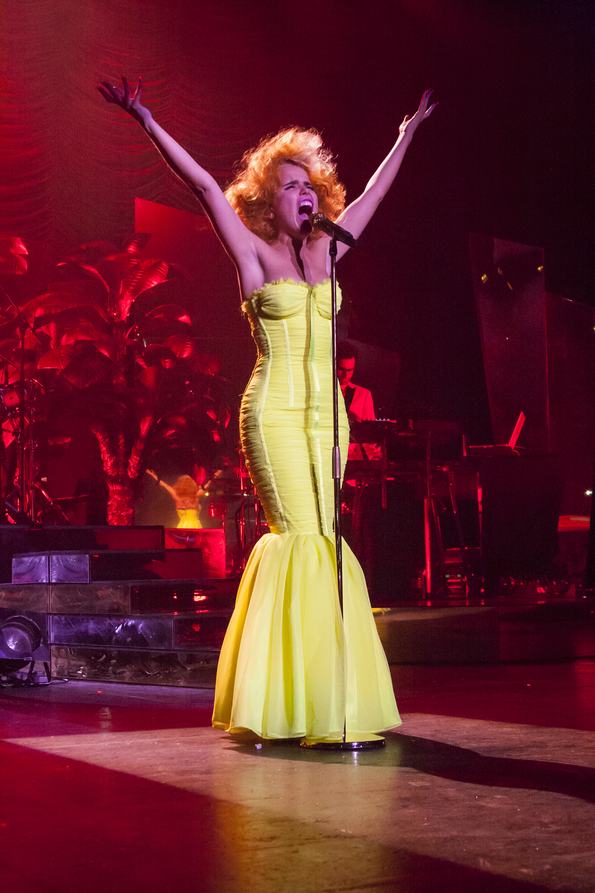 Paloma Faith performing at the O2 Apollo Manchester on 23 January 2013.